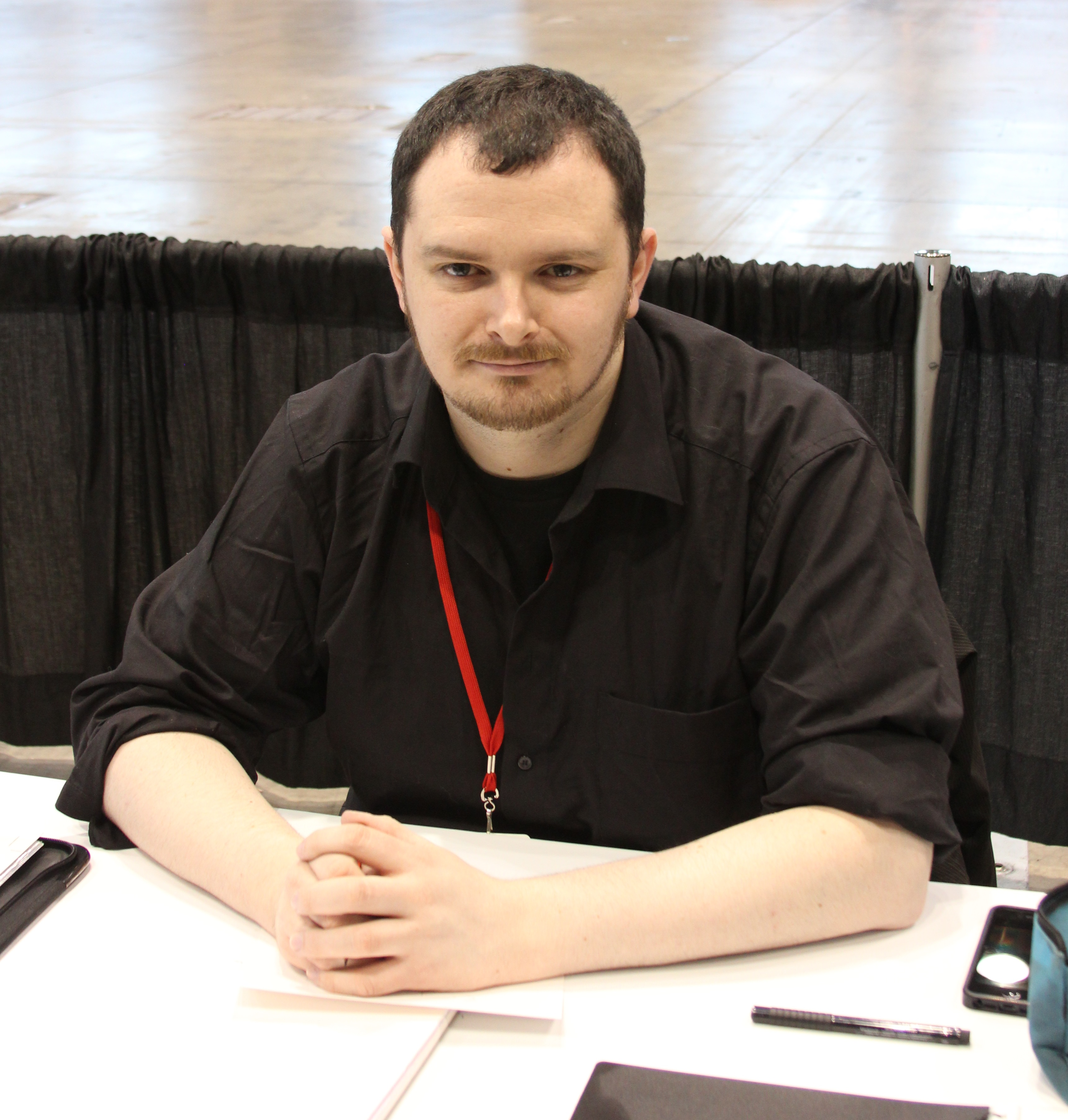 Comics creator Declan Shalvey at the C2E2, April 26, 2013